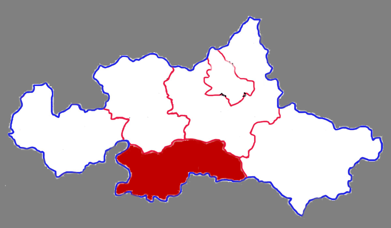 Location of Ningyang county in Taian City, China